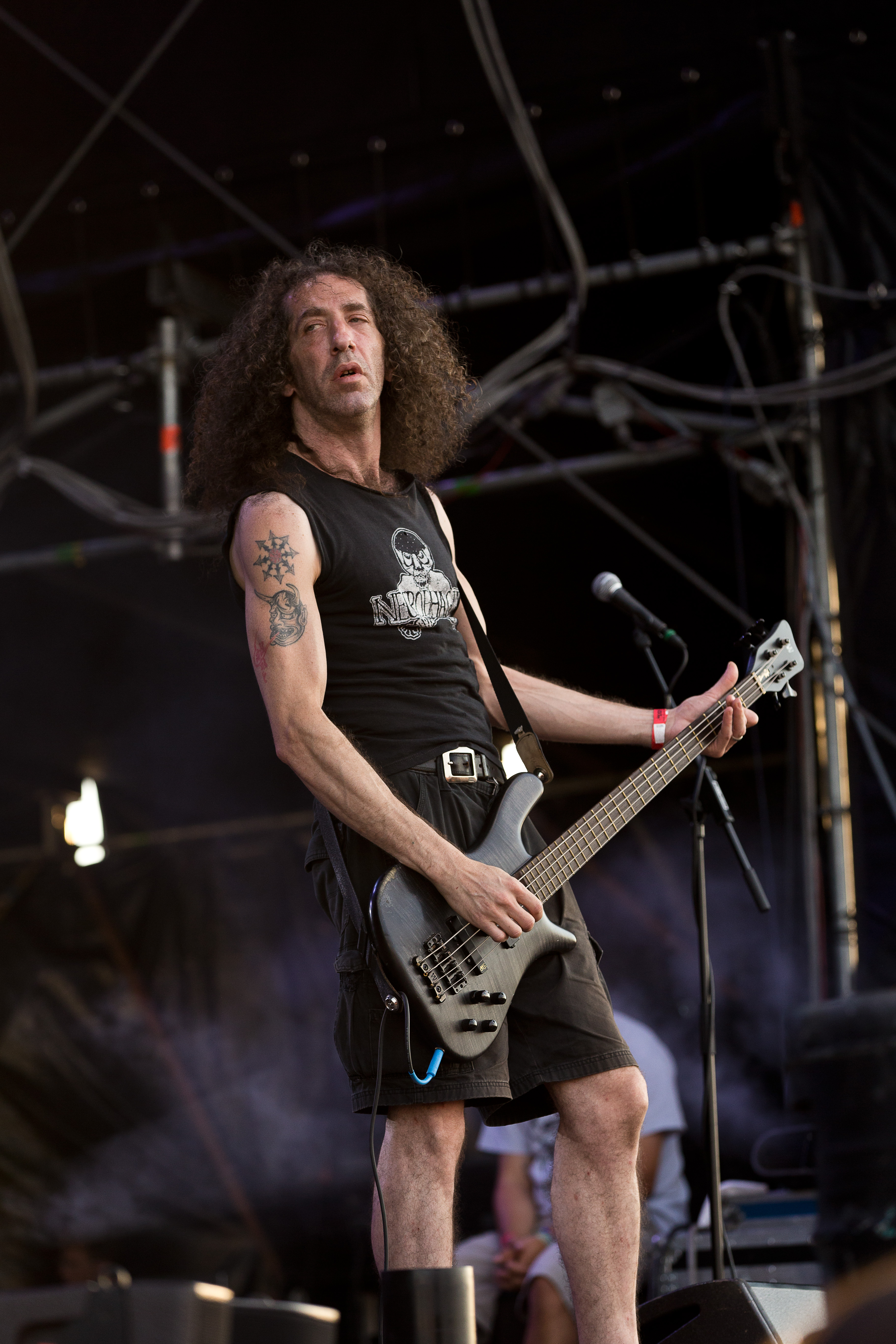 The US thrash metal band Nuclear Assault at the Party.San Open Air 2015 in Obermehler-Schlotheim/Germany.